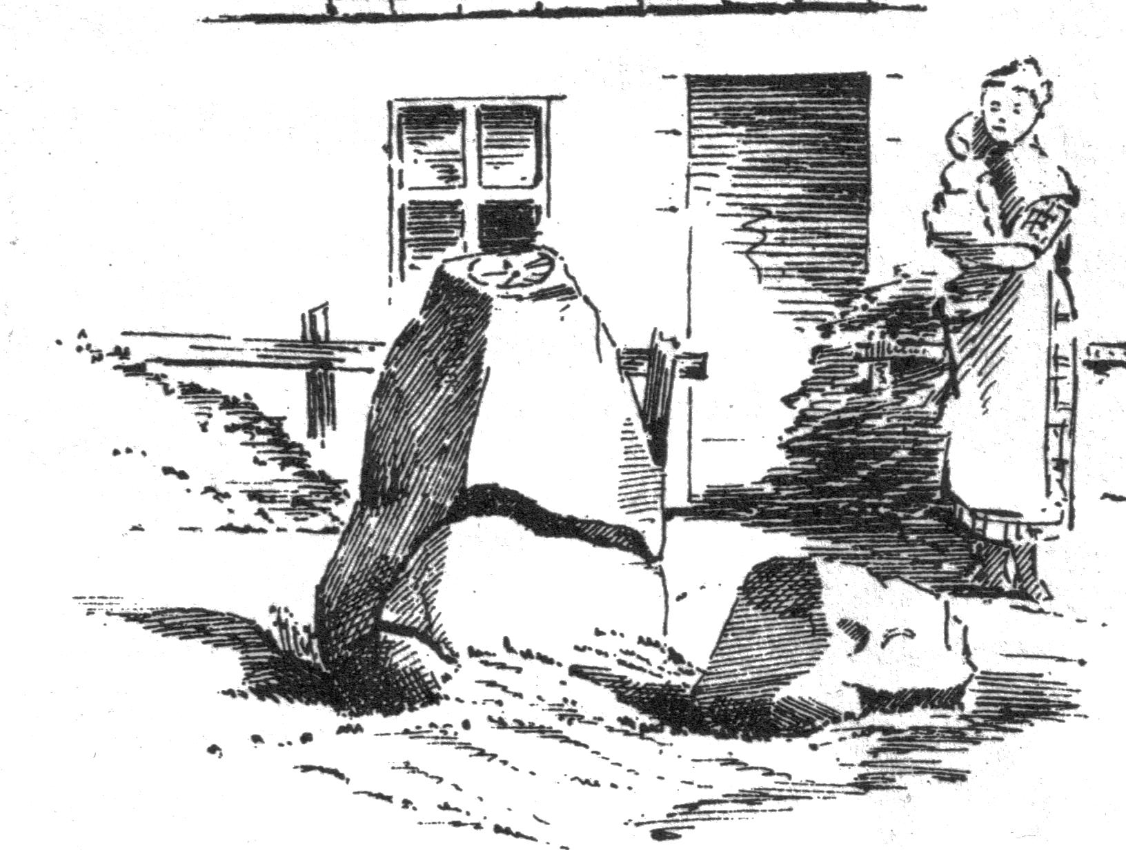 A mounting block at Minnigaff in Dumfries and Galloway, Scotland